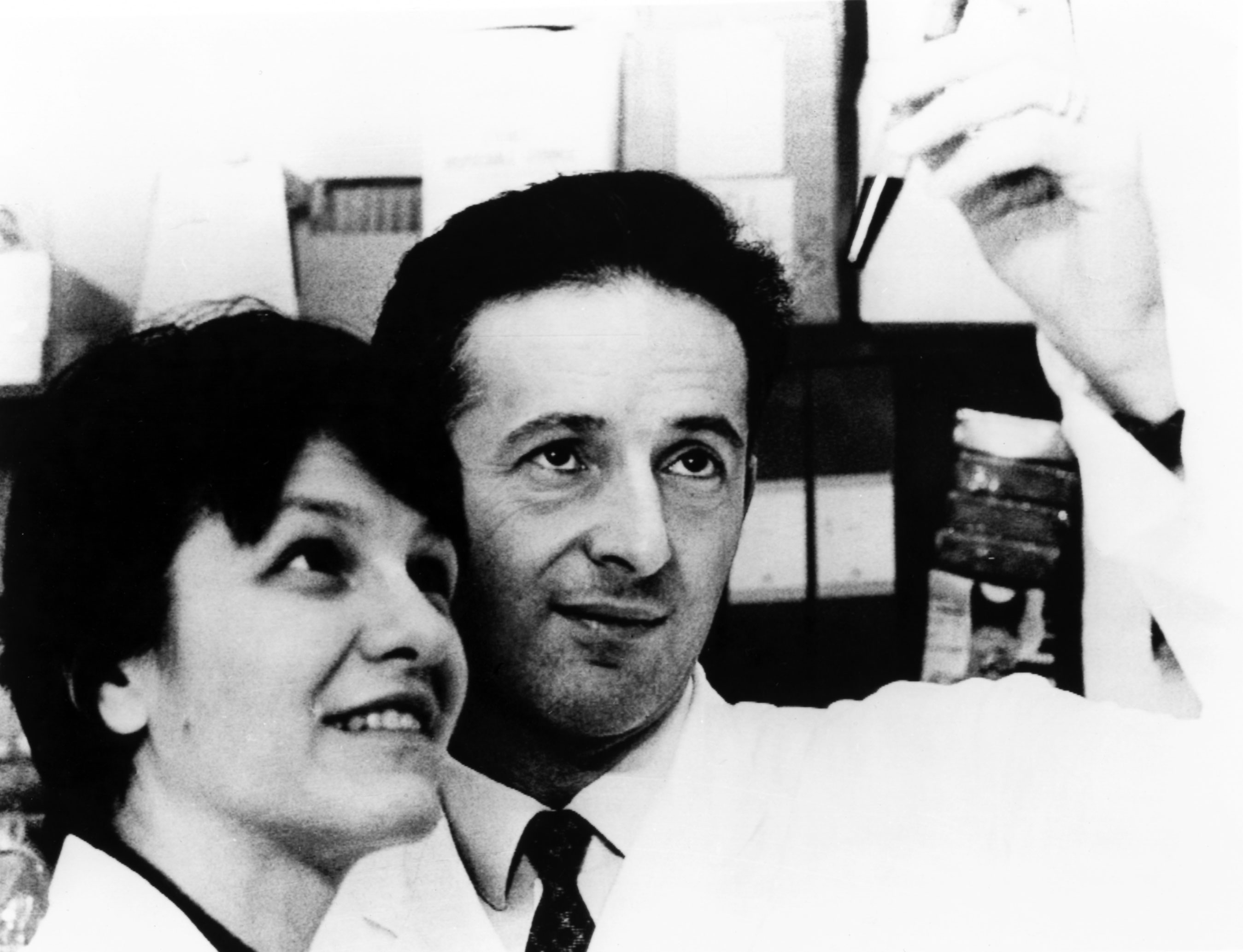 Title: Historical Portrait: George Klein Description: George Klein, M.D. who headed the Tumor Biology Institute at Karolinska Medical School was awarded the $100,000 prize by the General Motors Cancer Research Foundation for pioneering work in relations to cancer and the humans' immunity system. He is shown here along with his wife, Eva Klein, photo taken in Stockholm 04/11/79. Subjects (names): Klein, Eva and Klein, George Topics/Categories: Historical -- People People -- Adult Type: B&W Source: General Motors Cancer Research Foundtaion Author: Unknown Date Created: April 11, 1979 Date Added: 1/11/2010 Reuse Restrictions: None - This image is in the public domain and can be freely reused. Please credit the source and/or author listed above.